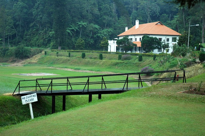 Royal Fraser's Hill Golf Club, Malaysia.